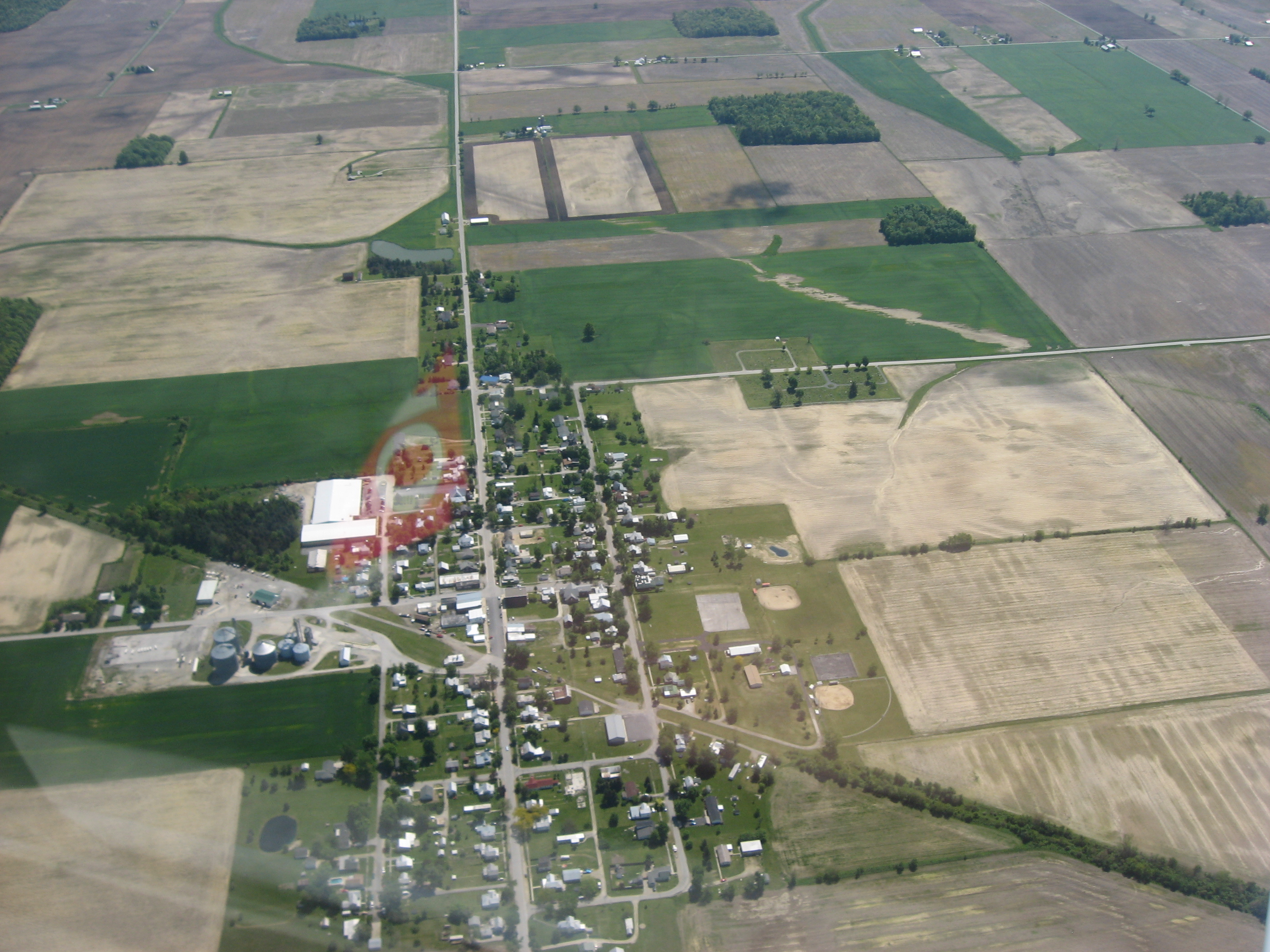 Aerial view of Wharton, a village in Wyandot County, Ohio, United States. Picture taken from a Diamond Eclipse light airplane at an altitude of 3,500 feet MSL and a bearing of approximately 100º.